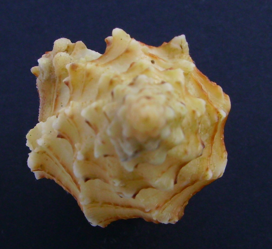 Murexsul octogonus (Quoy & Gaimard, 1833) underside view, illustrating the eight-sided profile. This work has been released into the public domain by its author, Graham Bould. This applies worldwide.In some countries this may not be legally possible; if so:Graham Bould grants anyone the right to use this work for any purpose, without any conditions, unless such conditions are required by law.